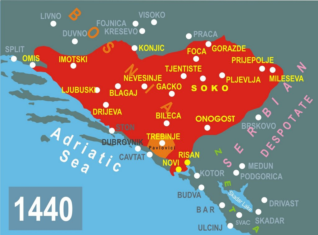 Duchy of S. Vukcic Kosaca, c.1440.